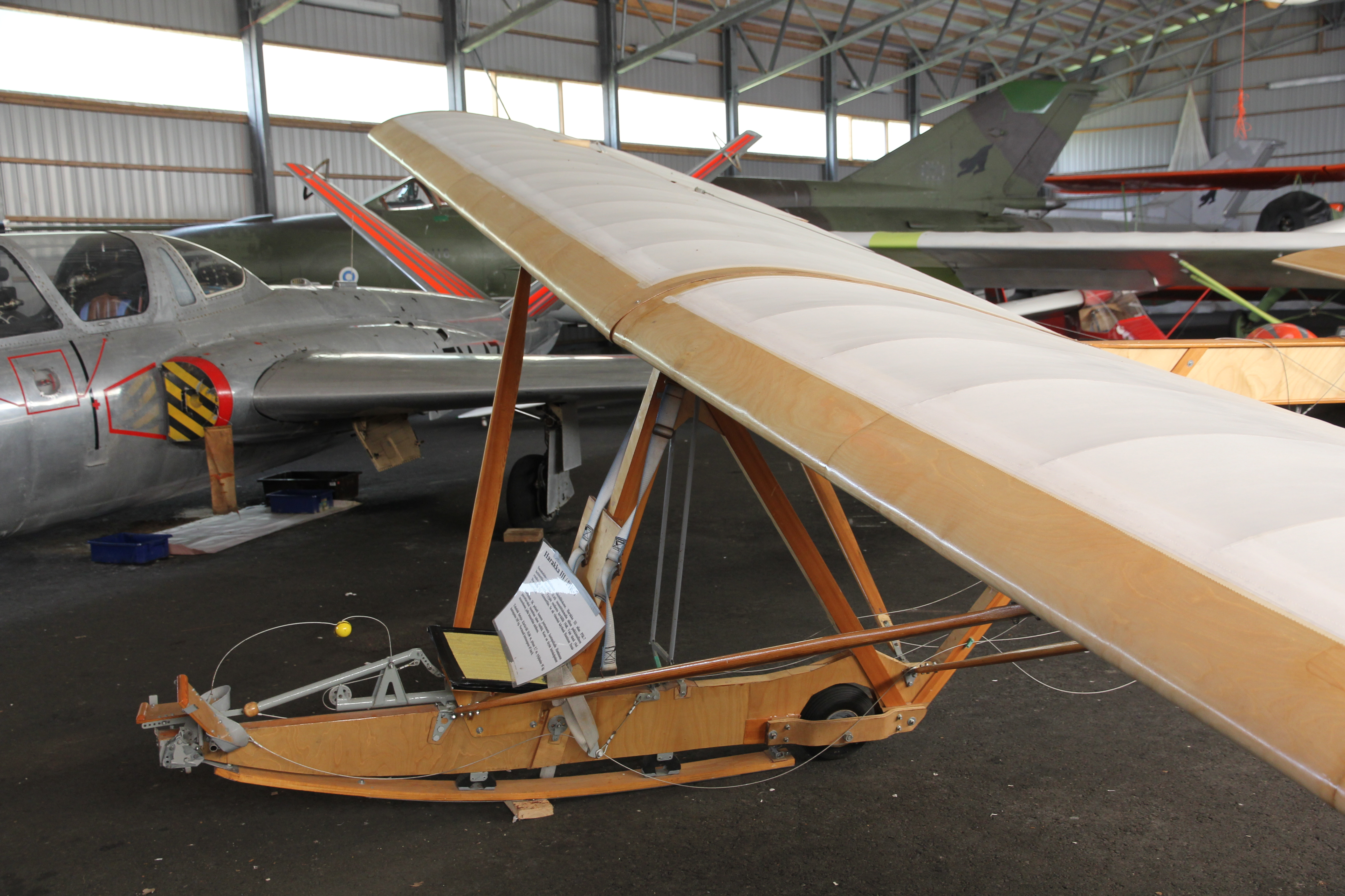 Harakka III H-34 primary glider photographed in Karhulan ilmailukerho aviation museum. This is the only example of the type ever built.